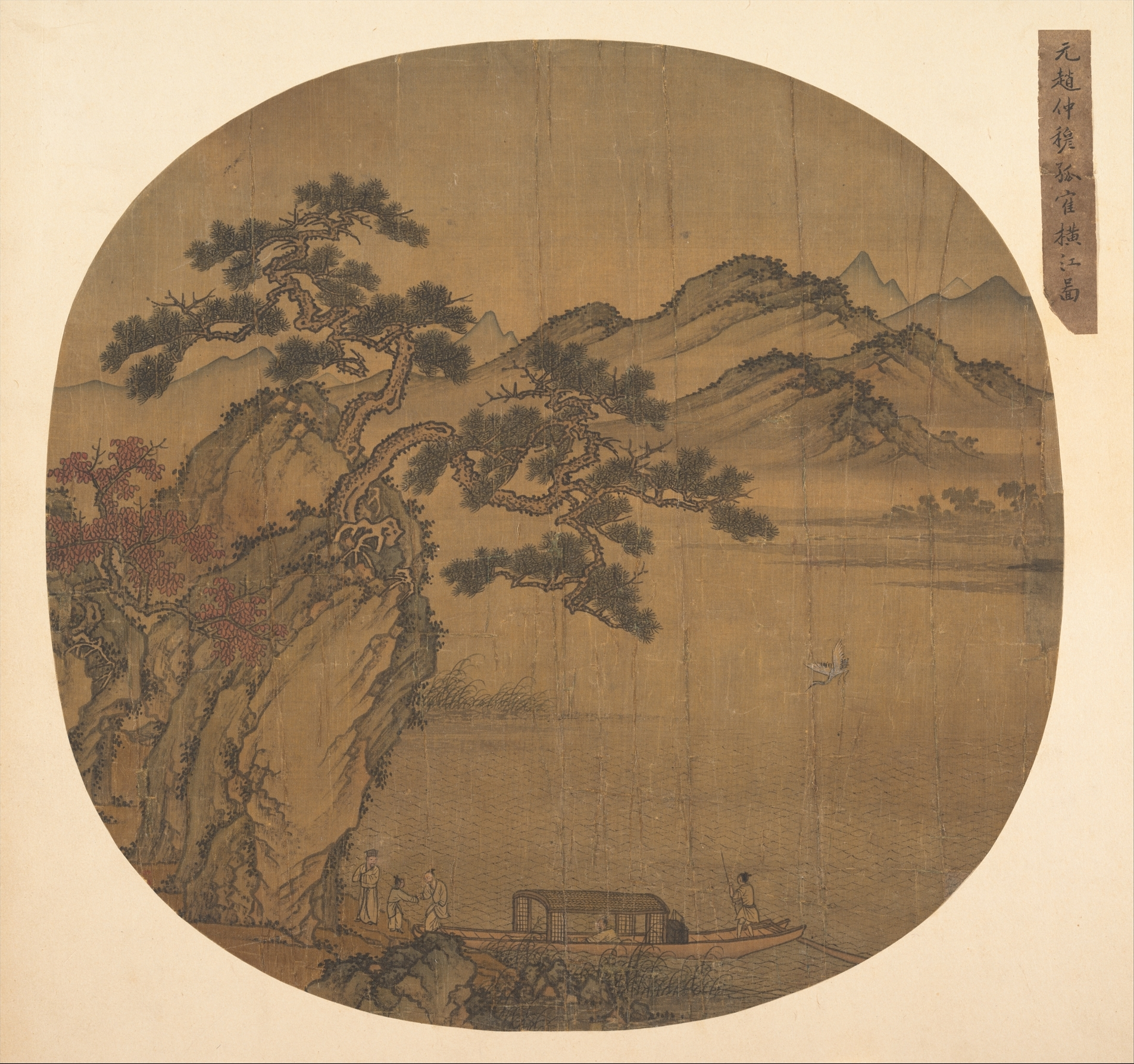 China; Fan mounted as an album leaf; Paintings